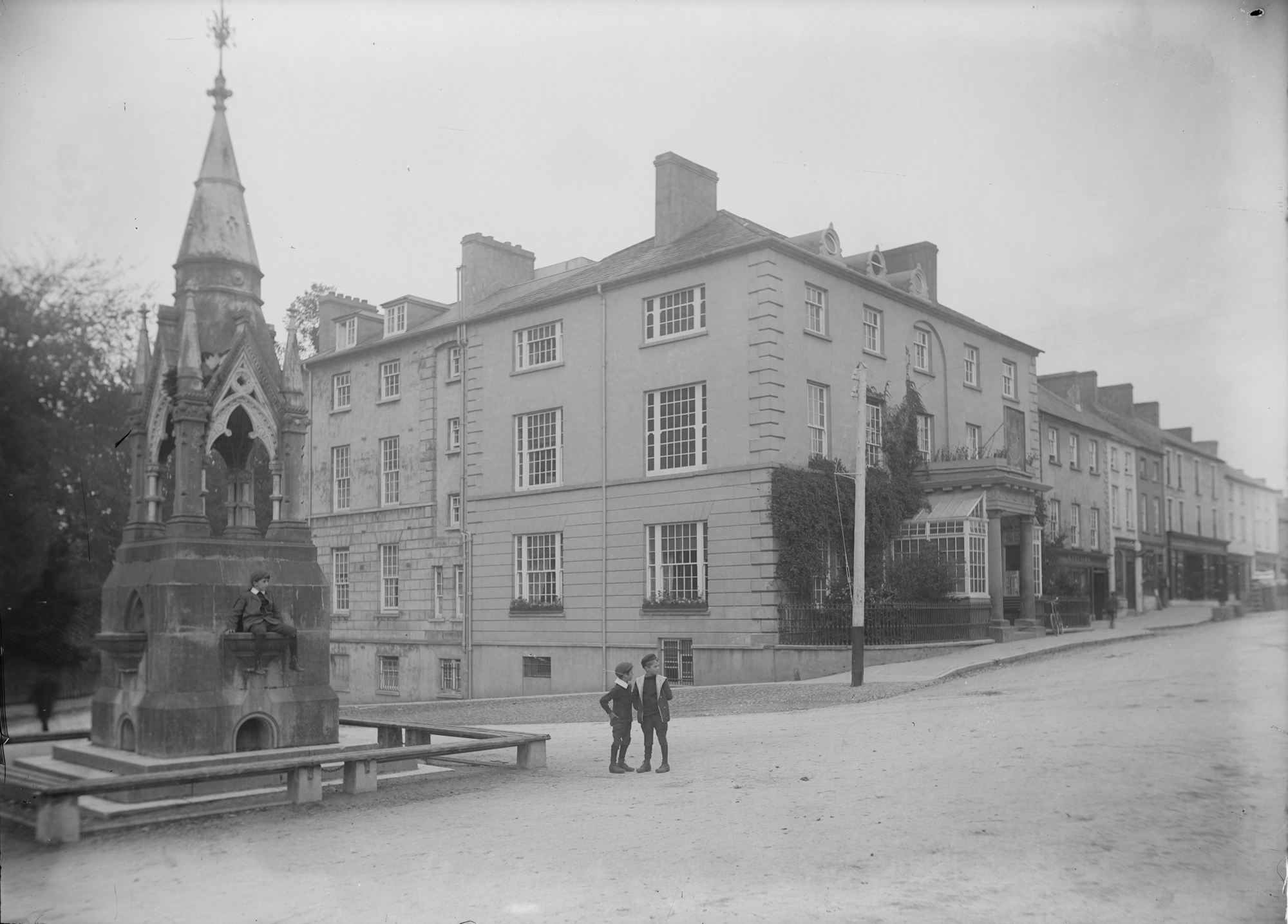 We start November with a stay in the Devonshire Arms Hotel in Lismore, one of the most beautiful areas in Ireland. Rich with castles, trees and the beautiful Blackwater River - what better place to spend an Autumn day? With thanks to all for the contributions below, we learned that the hotel (now the Lismore House Hotel) dates from the 1790s, and the monumental fountain (the Ambrose Power Memorial) to the 1870s. When the picture itself was taken, and what the young chaps are up to is still the subject of some debate... Photographer: Unknown Collection: Eason Photographic Collection Date: Between 1900 - 1939 NLI Ref: EAS_3608 You can also view this image, and many thousands of others, on the NLI’s catalogue at